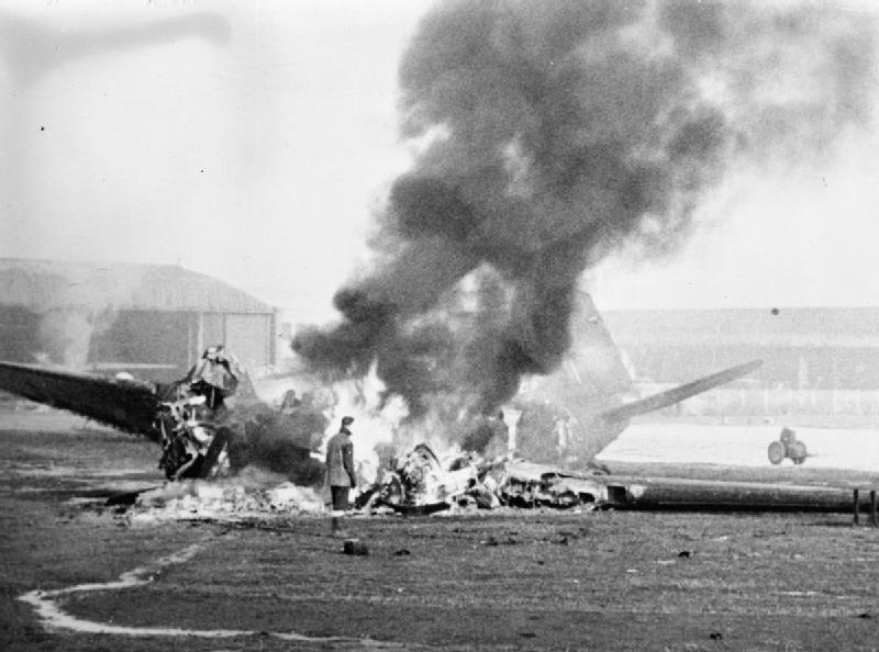 Royal Air Force Transport Command, 1943-1945. A Douglas Dakota of RAF Transport Command, destroyed during the attack on B58/Melsbroek, Belgium, by Luftwaffe fighter-bombers (Operation BODENPLATTE), burns itself out in front of the hangars.